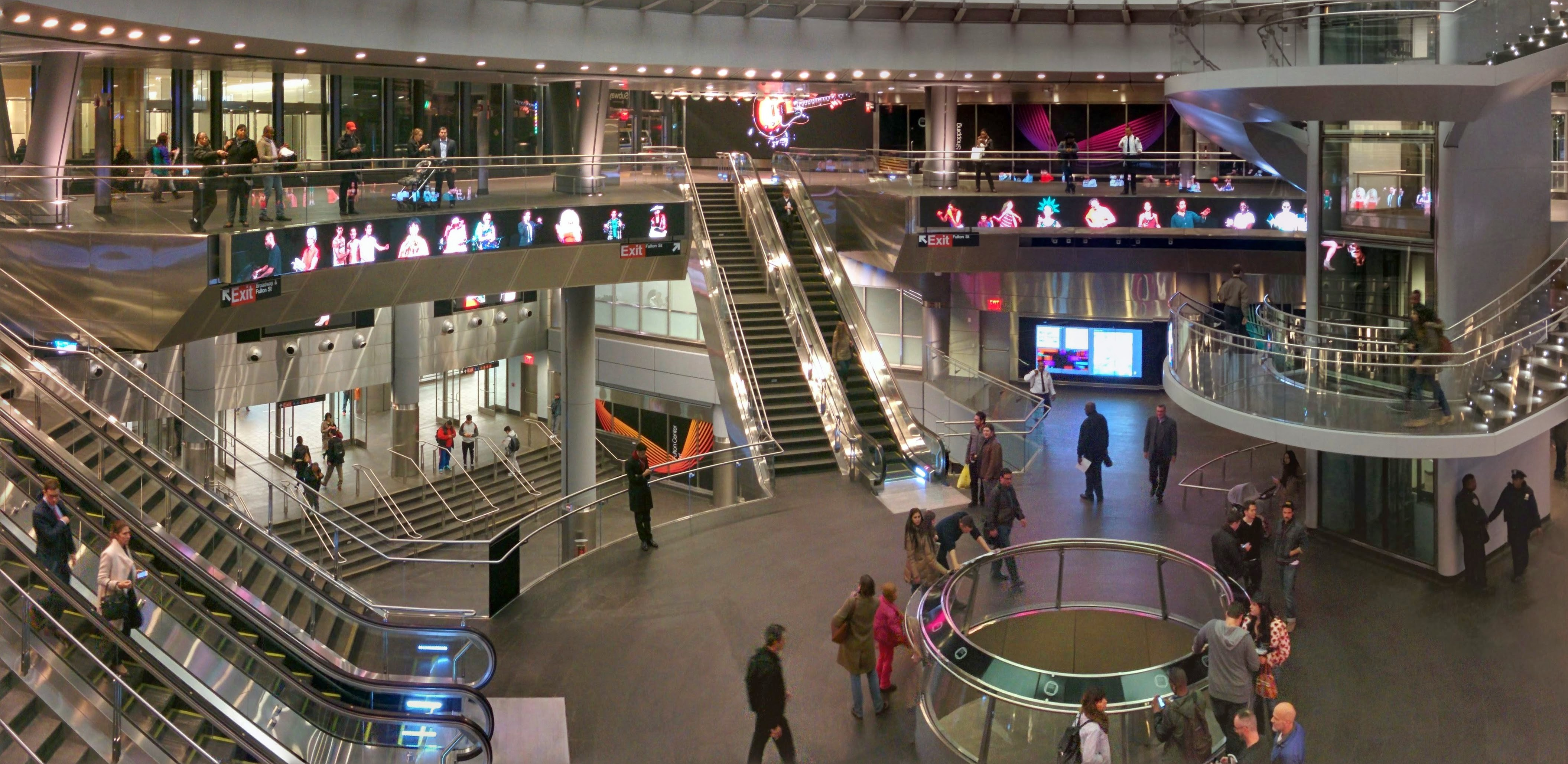 Central mezzanine of the Fulton Center in November 2014.